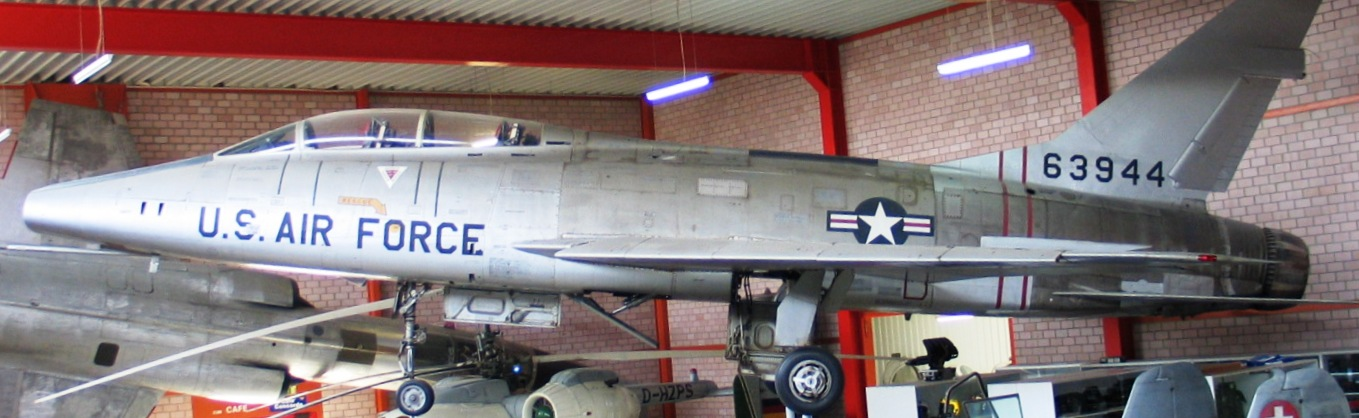 North American F-100F Super Sabre - eigen foto